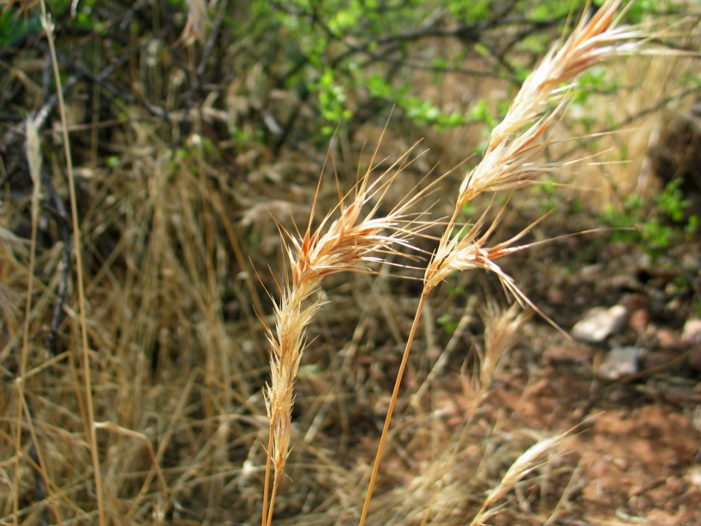 Red brome at Tonto National Monument (exotic)